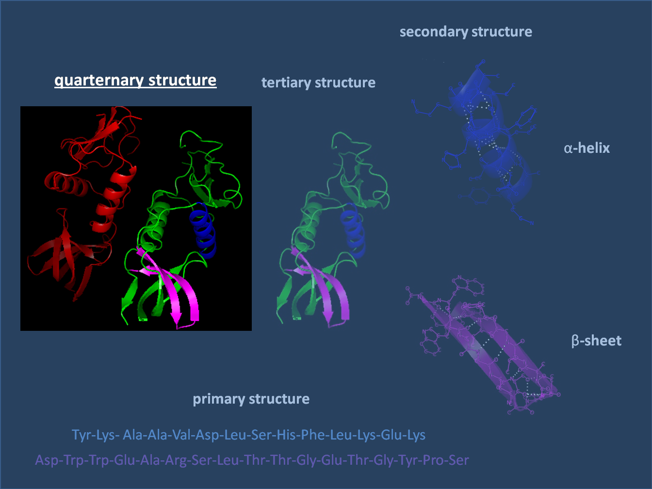 Protein structure with focus on the quaternary structure